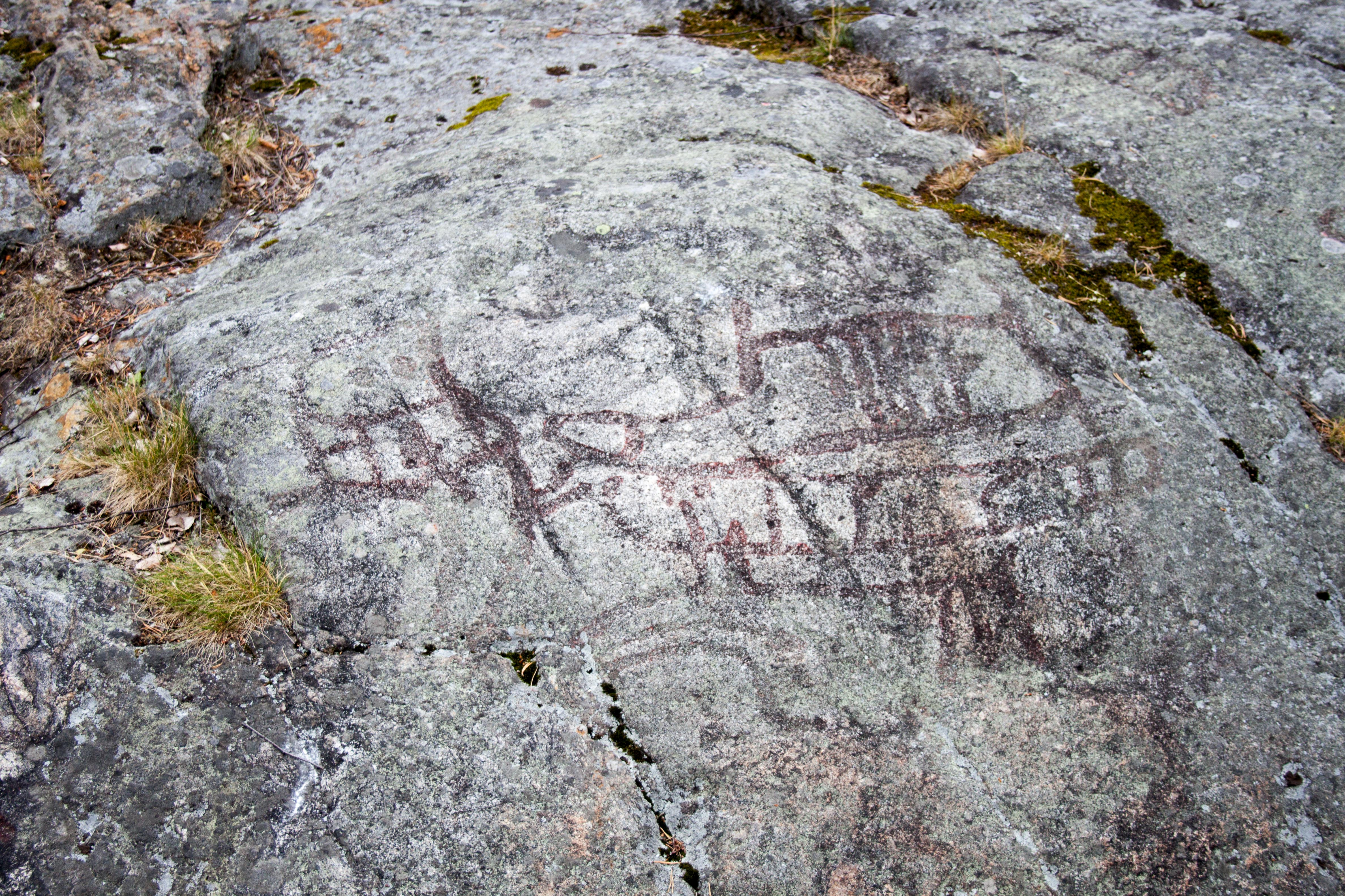 Archeological site of the Norrfors petroglyphs